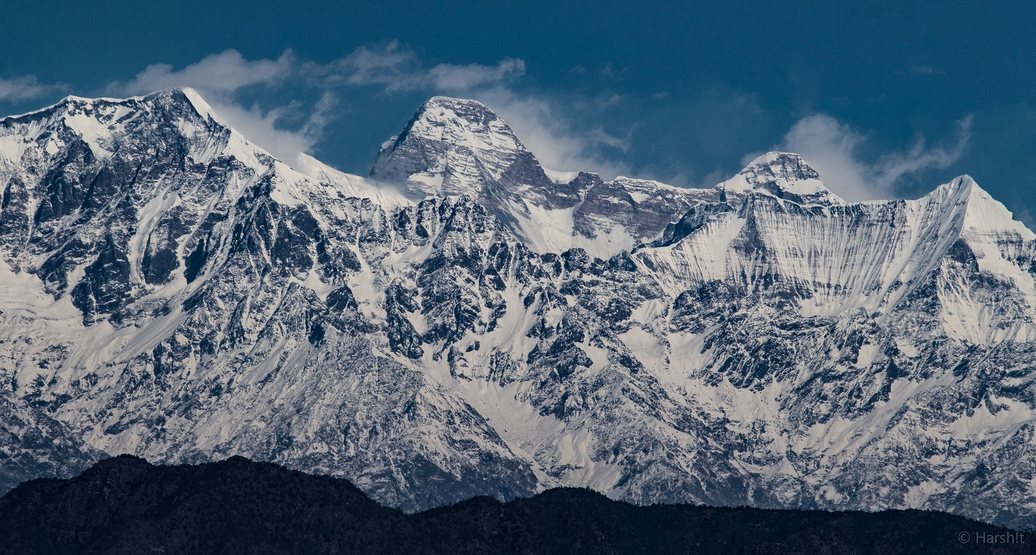 Nanda Devi (Chamoli Garhwal, Uttarakhand, India) is the highest peak that India doesn't shares with any other nation, at 7817 meters.